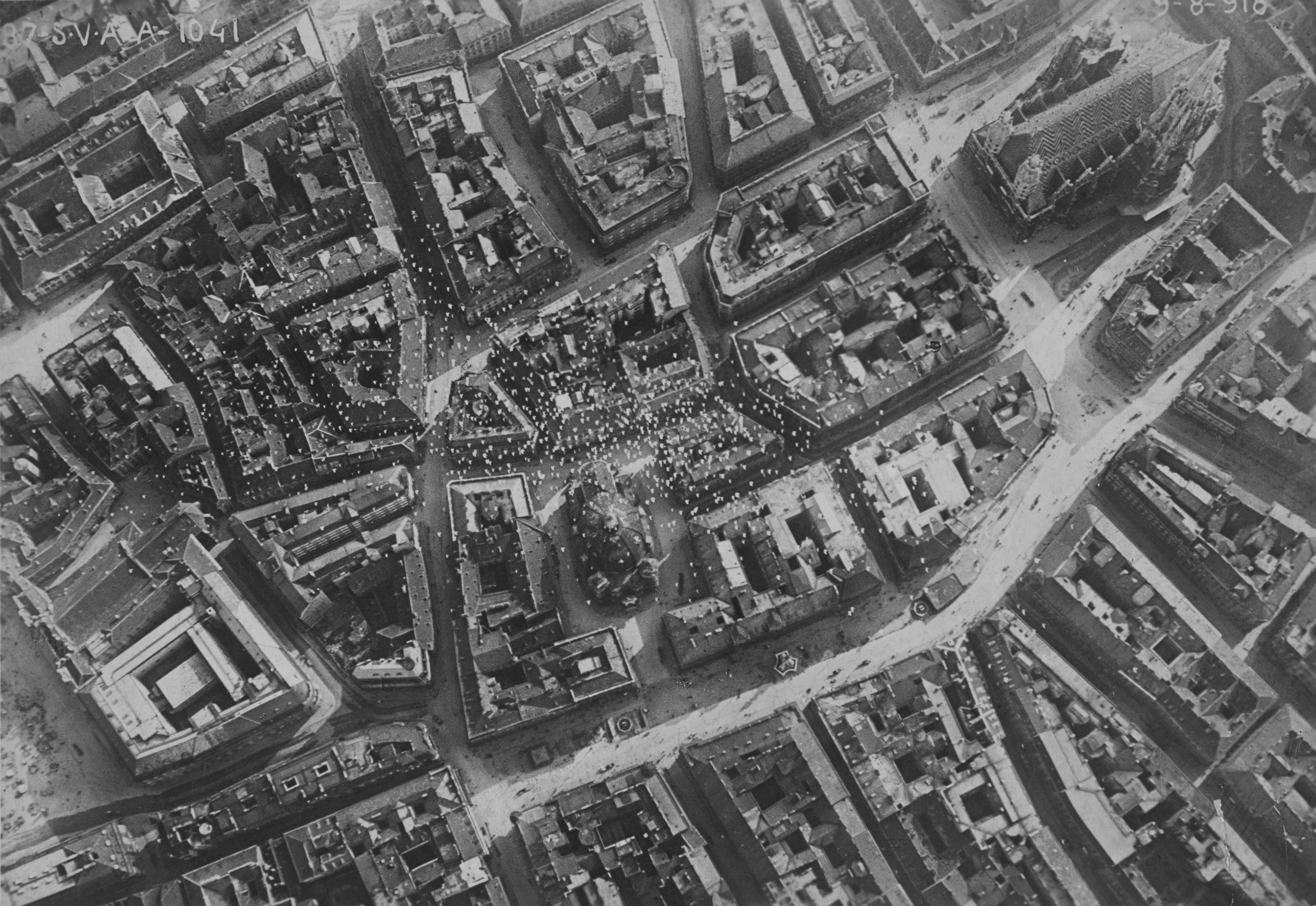 Flight over Wien of the 1918 by Italian pilot Antonio Locatelli, discharging propaganda fliers.